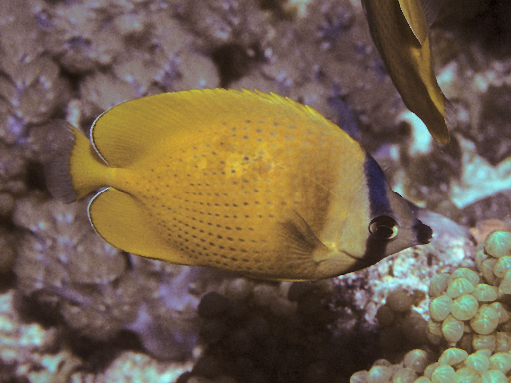 Chaetodon kleinii, Sunburst butterflyfish. Underwater photograph, Pemba island, Tanzania, Africa.